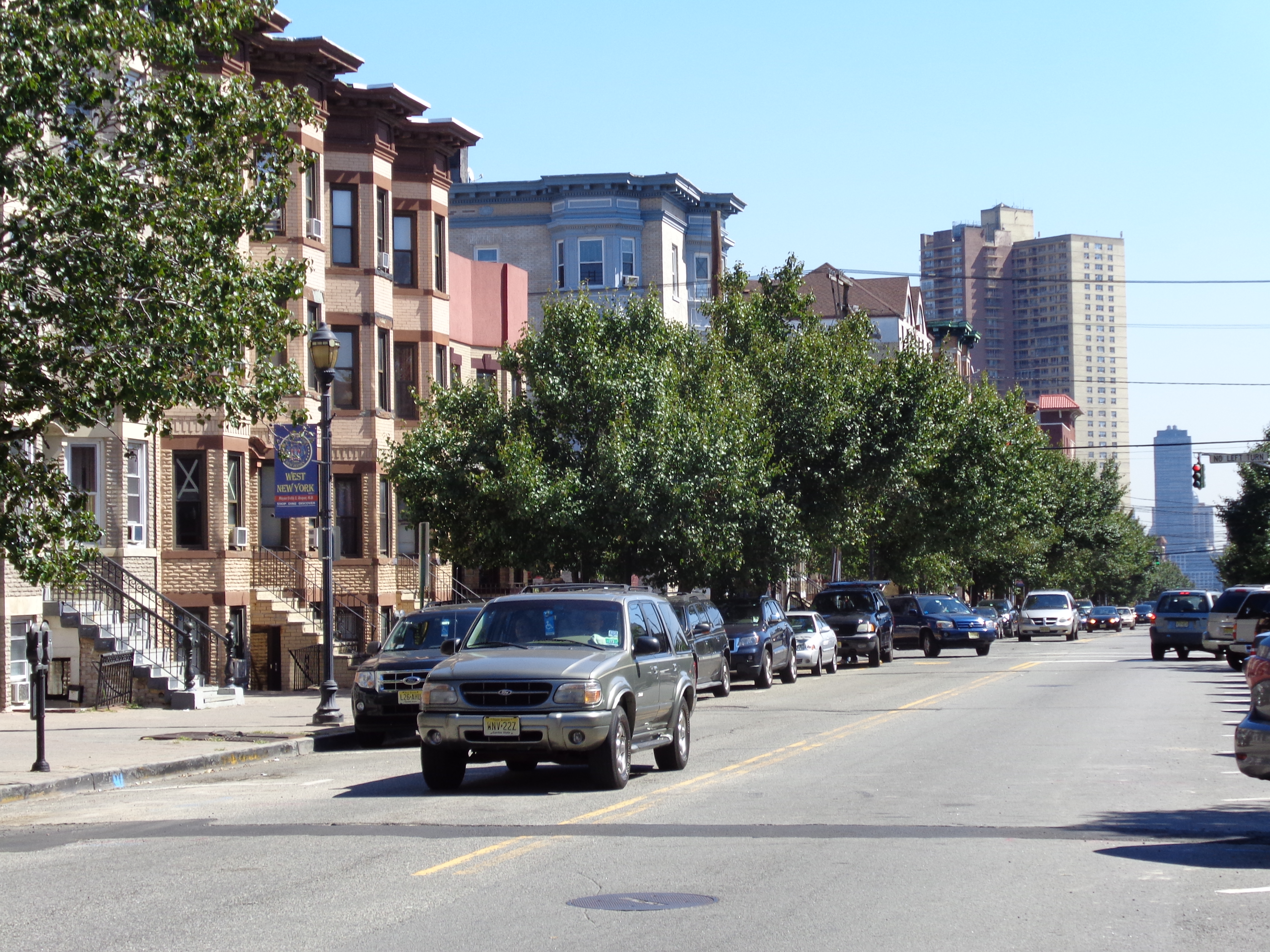 60th Street looking east West New York